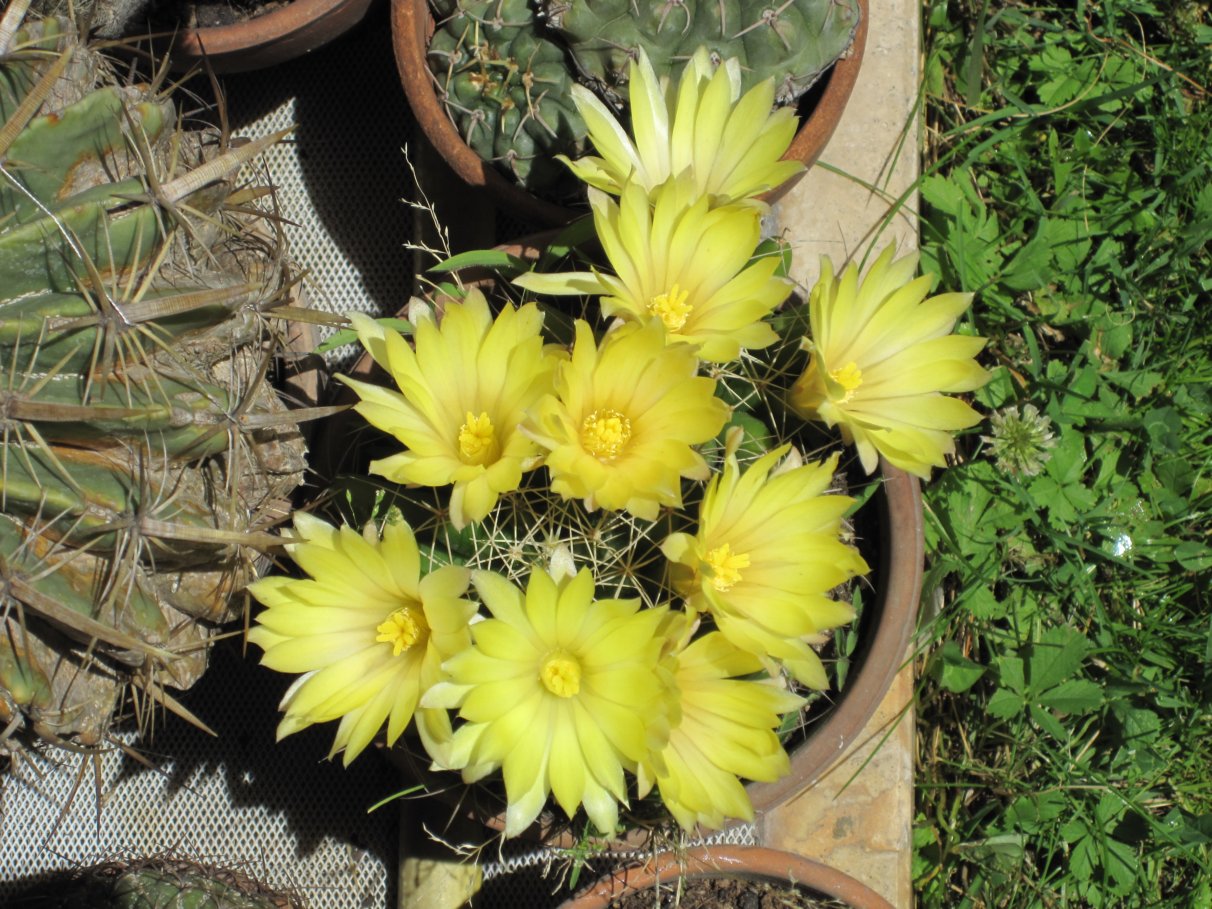 Mammillaria longimamma in flower